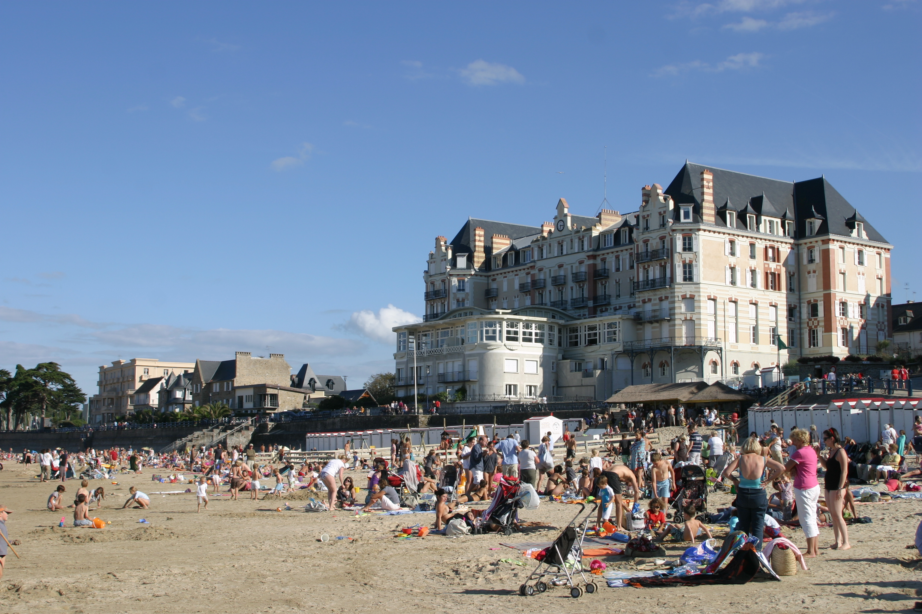 Saint-Lunaire - View of the Grand Hôtel from the beach